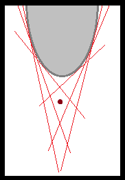 The Foerstner corner corresponds to the point closest to the intersection of all the tangent lines in the window. Object corner (in grey) and tangents (in red)